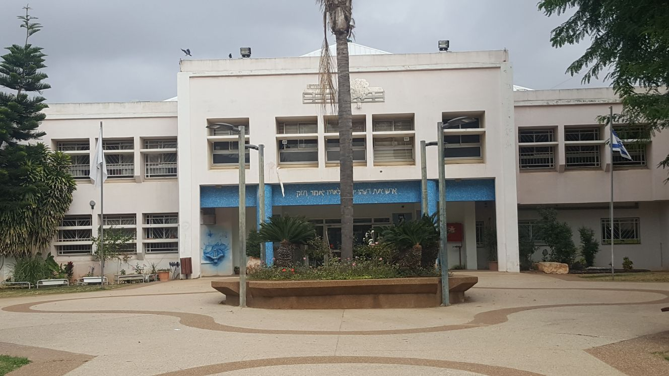 Hadarim high school, Hod Hasharon, Israel